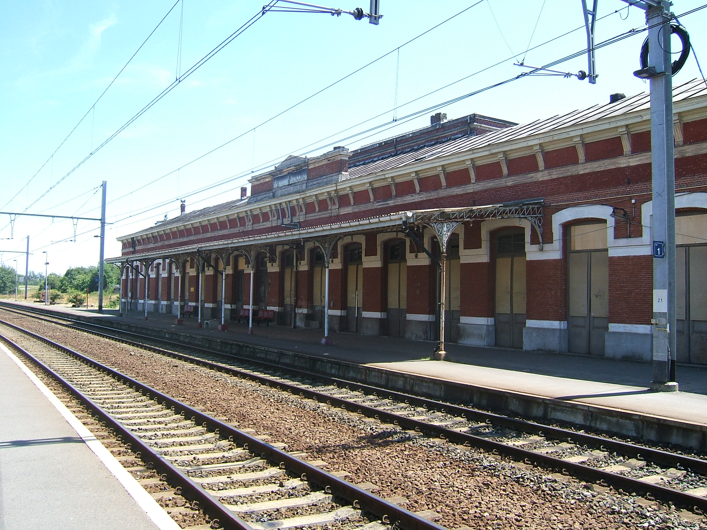 The railway station of Quiévrain